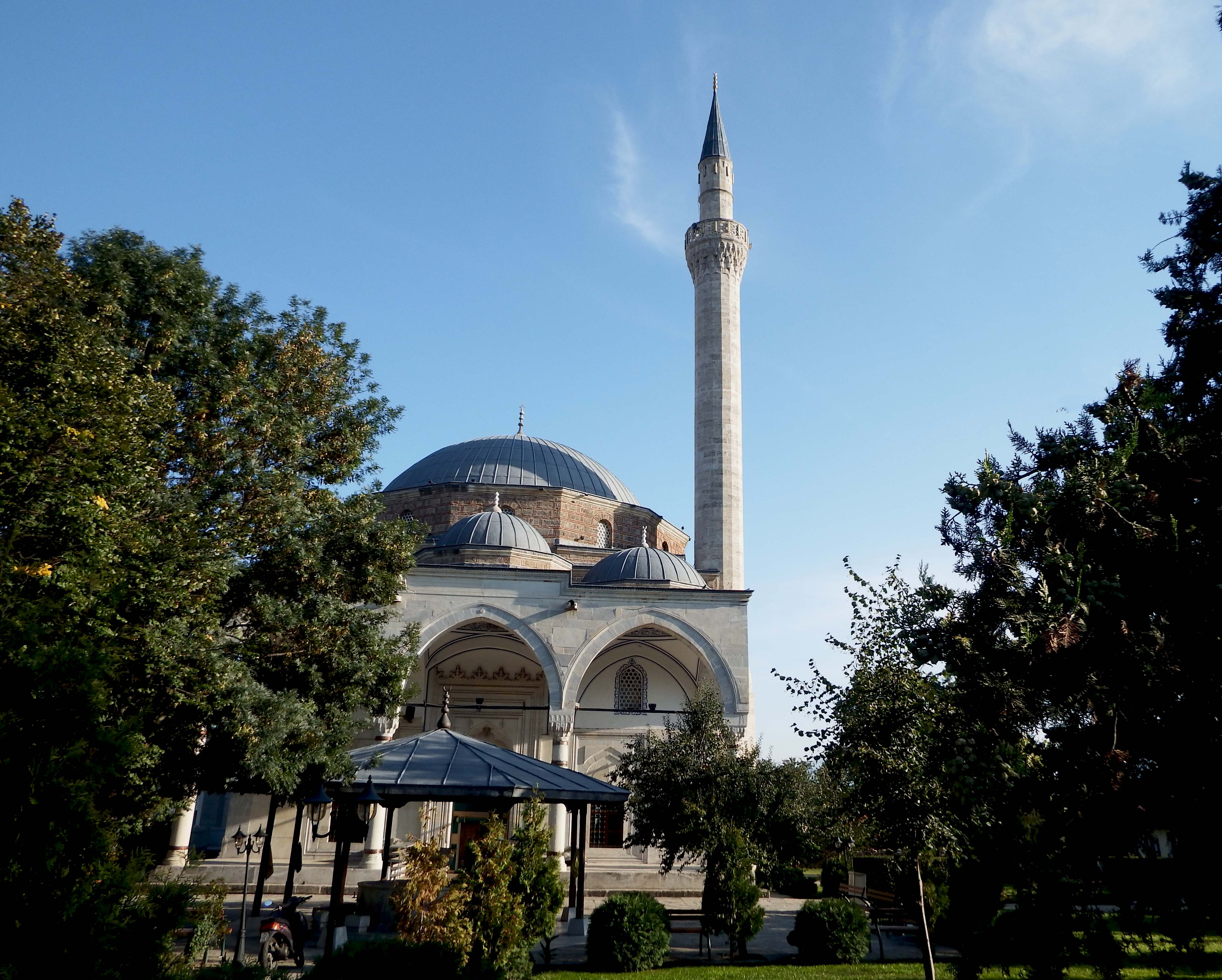 Mustafa Pasha Mosque, Skopje.